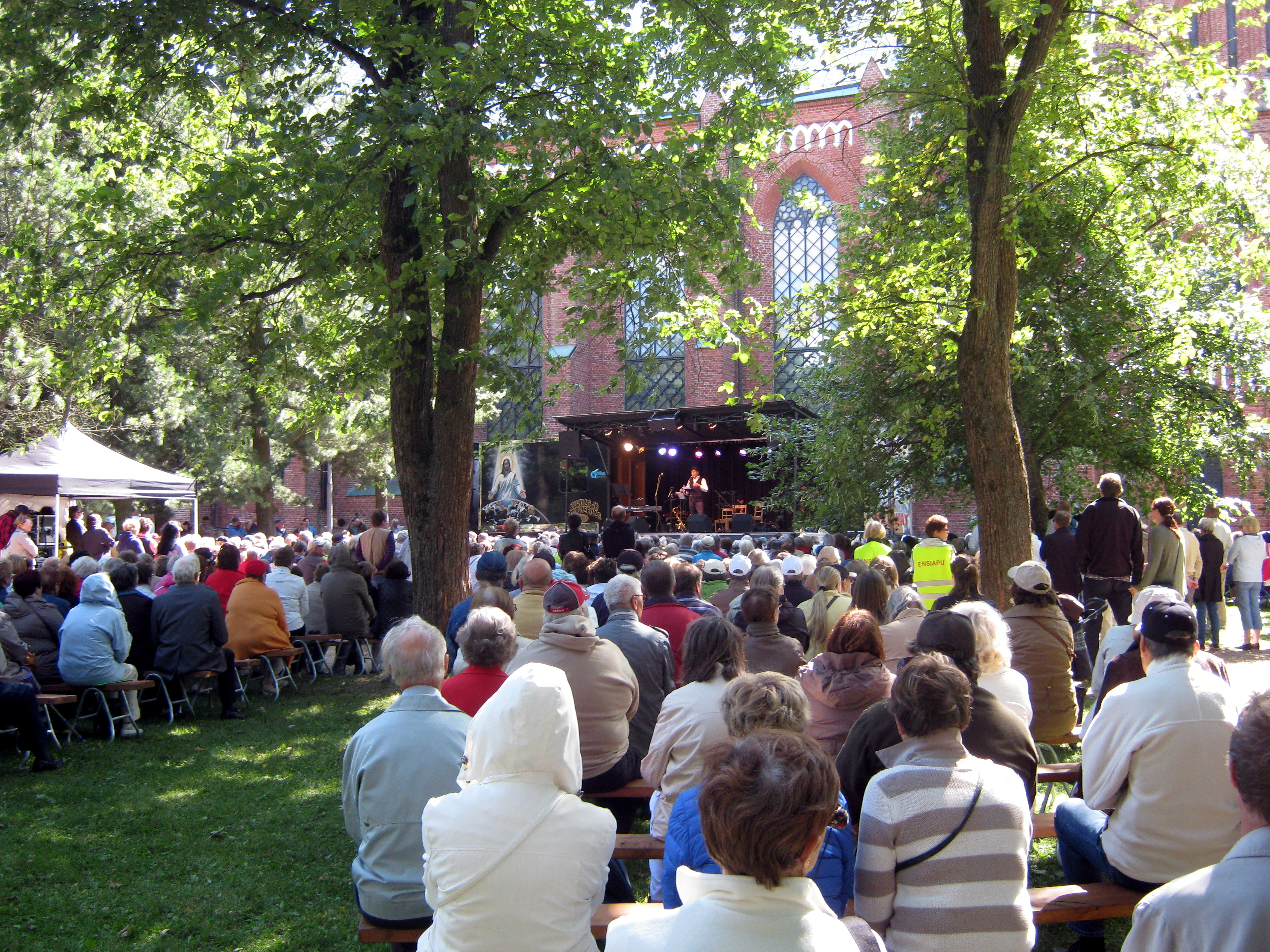 Gospel festival in Pori, Finland at the park of Central Pori Church. Viktor Klimenko on stage.